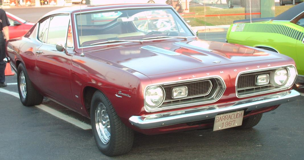 1967 Plymouth Barracuda photographed in Montreal, Quebec, Canada at Gibeau Orange Julep.